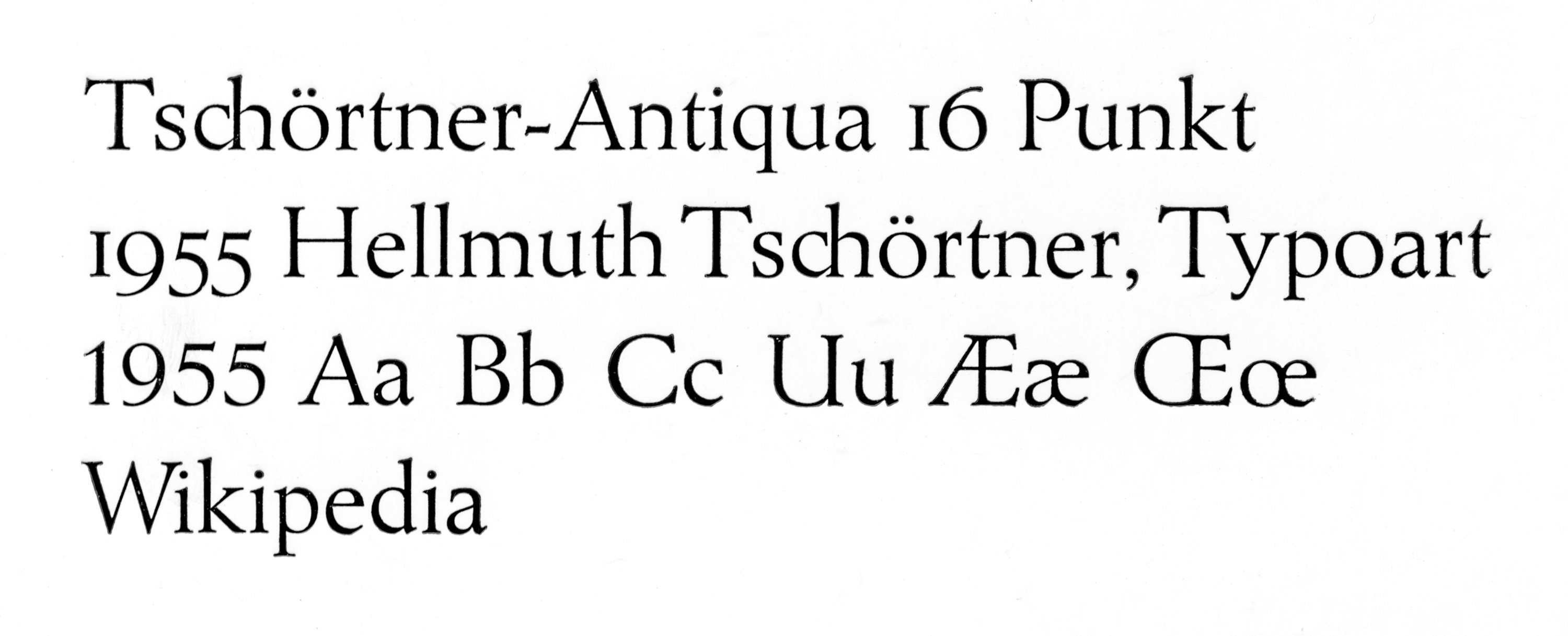 Original Tschörtner-Antiqua, letterpress, lead 16 points